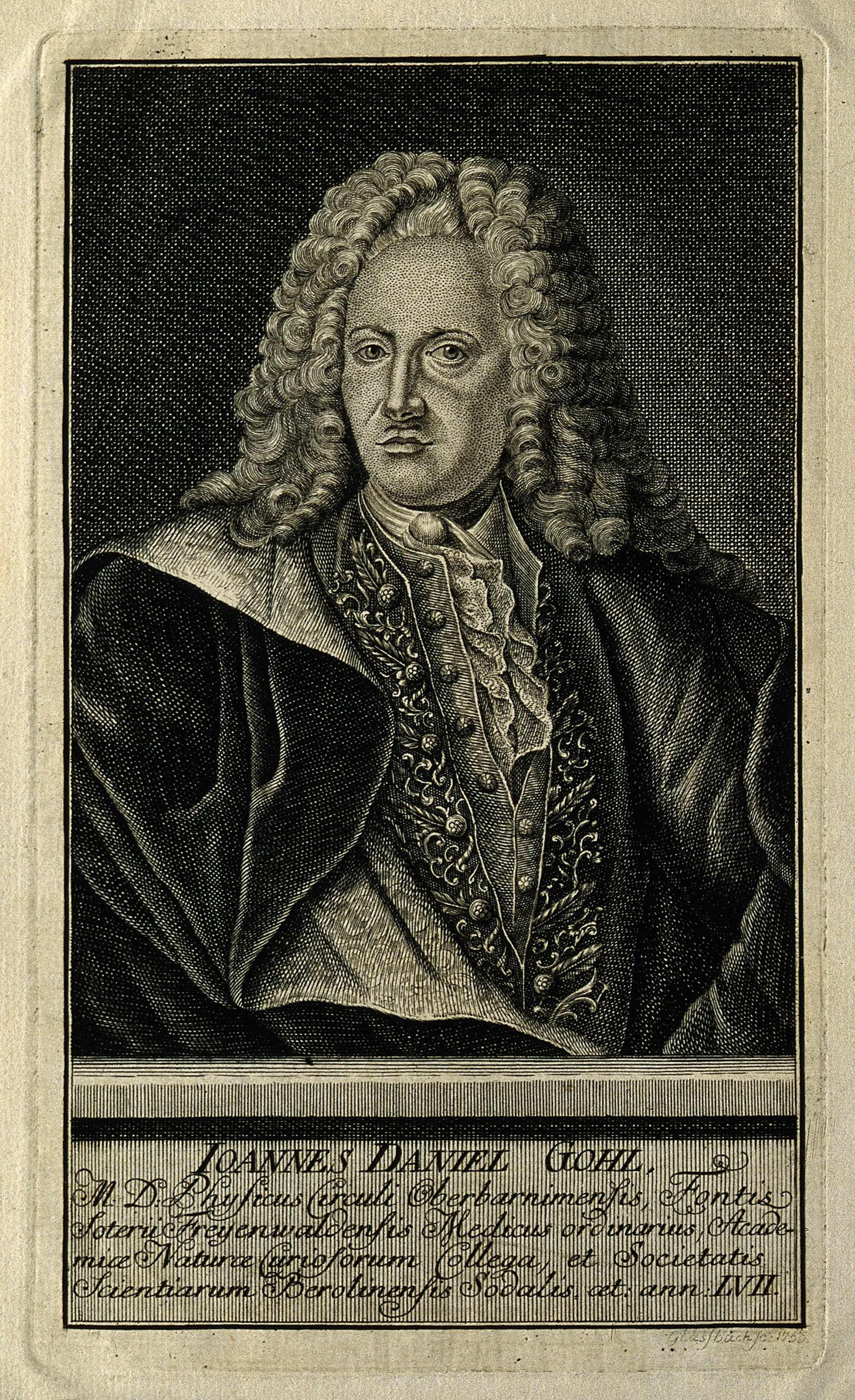 Johann Daniel Gohl. Stipple engraving by C. C. Glassbach, 1733 [?]. Iconographic Collections Keywords: portrait prints; Johann Daniel Gohl; stipple prints; C. C. Glassbach